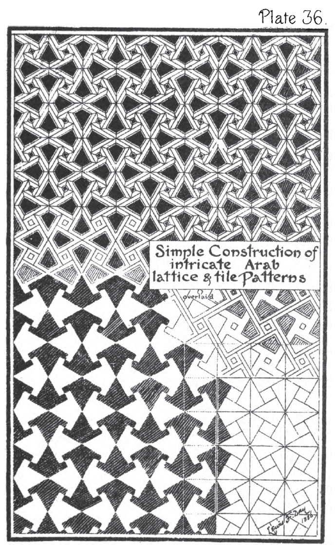 illustration from book